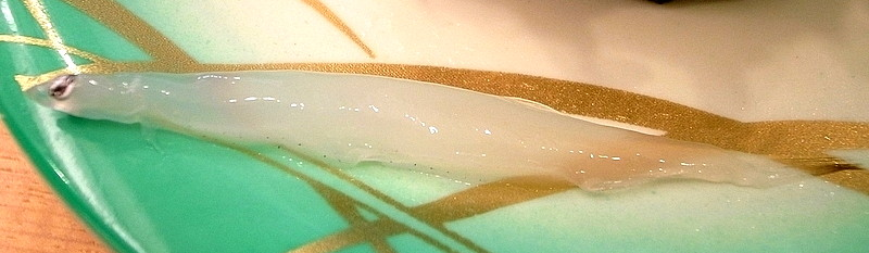 Japanese icefish Salangichthys microdon (Bleeker, 1860)